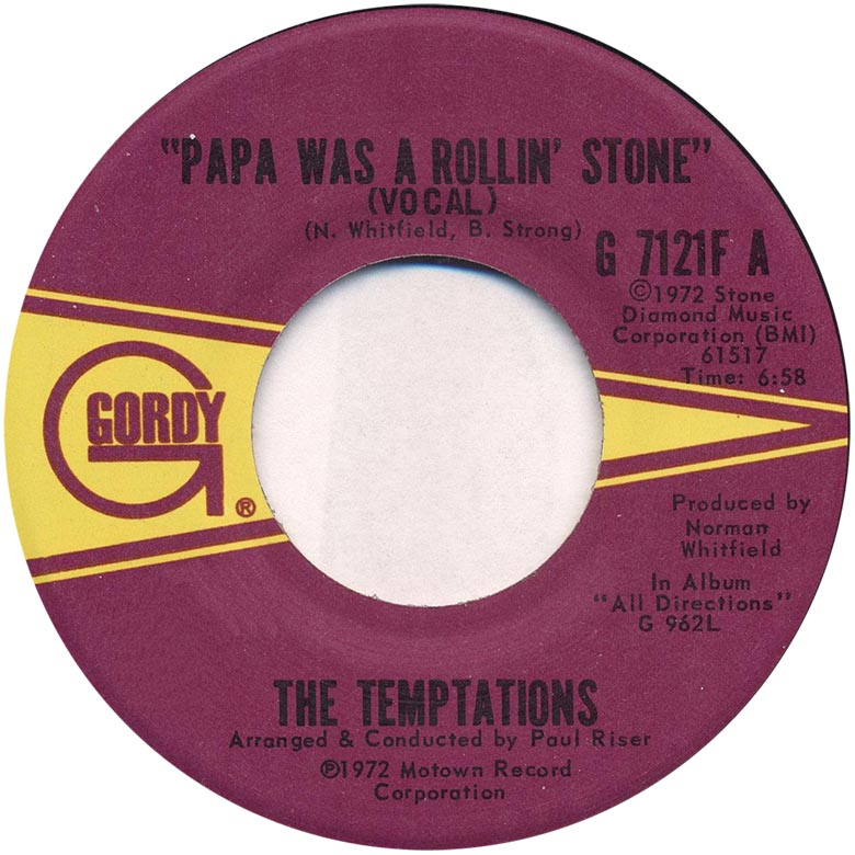 "Papa Was a Rollin' Stone" by The Temptations; A-side track label of the US vinyl release